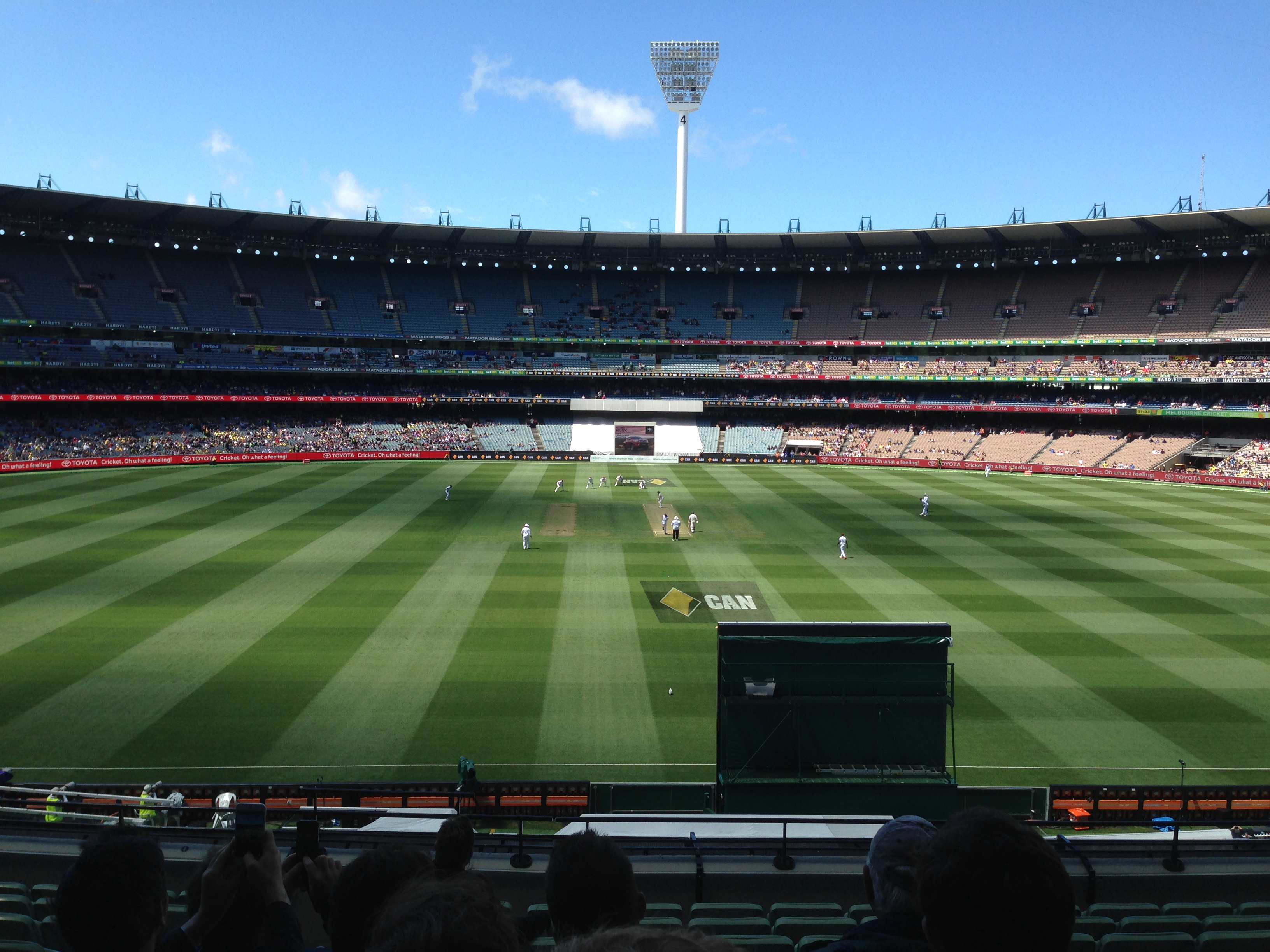 The first day of the 2015 Boxing Day Test match, between Australia and the West Indies at the Melbourne Cricket Ground. The photo is of the first ball of the day's play at about 11:30am (start was delayed slightly due to rain). Jerome Taylor is the bowler and Joe Burns is facing (David Warner is the non-striker).